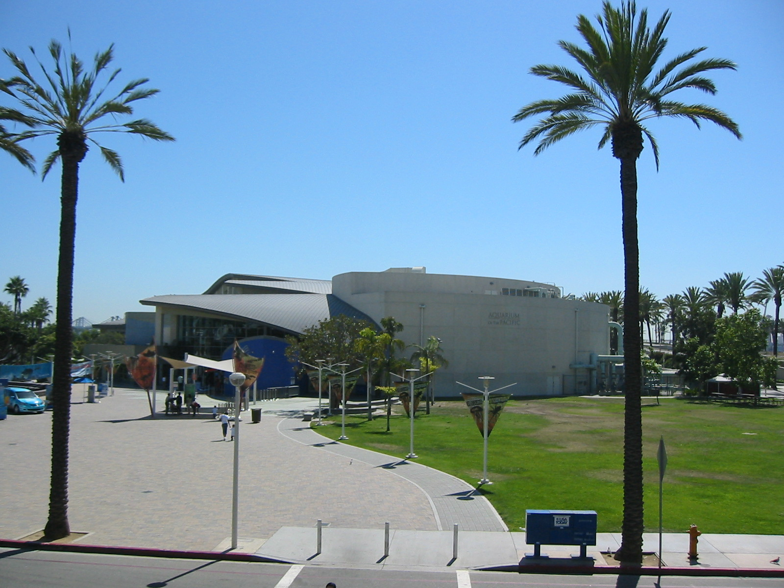 Outside of the Aquarium of the Pacific in Long Beach, CA.